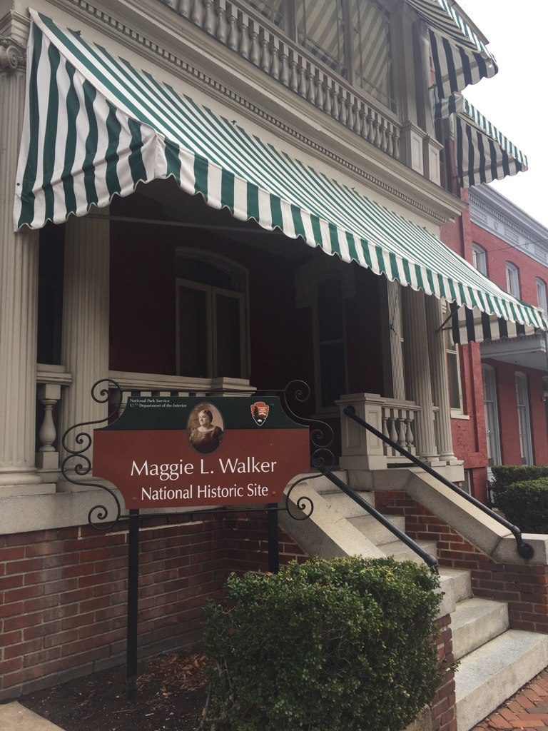 Maggie L Walker National Historical Site, Richmond Virginia